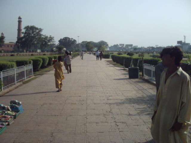 Walking trail in Iqbal Park. Picture taken by Pale blue dot on June 10, 2004.